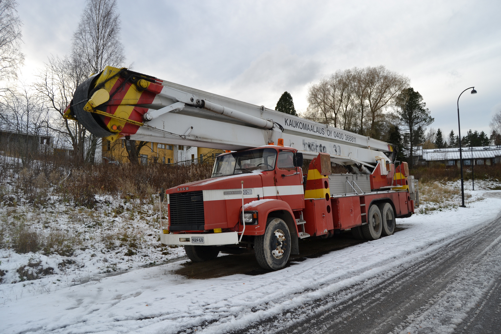 Jyry-Sisu R-142BPT former fire engine; powered by a turbocharged Leyland O.690 engine.